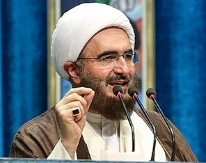 Mohammad Javad Hajaliakbari